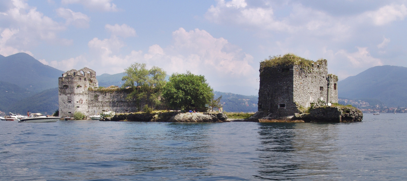 The castles of Cannero seen from the lake